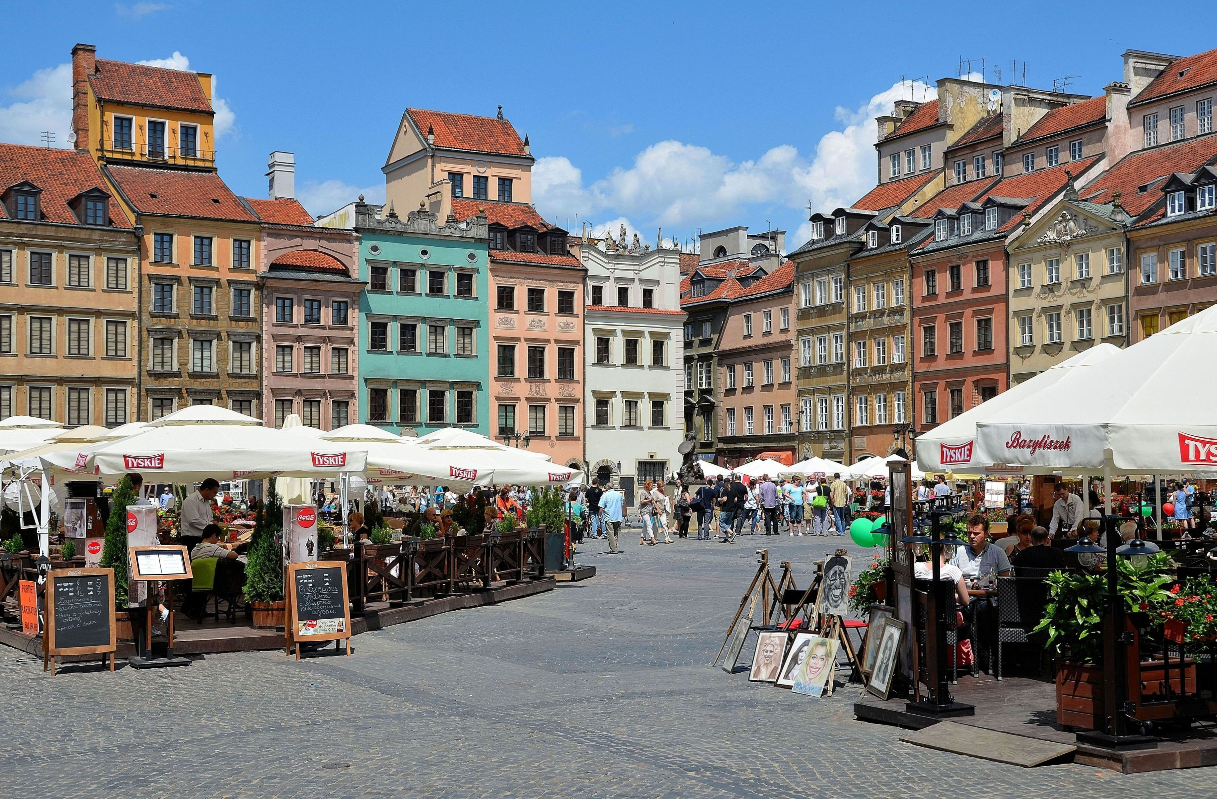 Old Town Market Square in Warsaw, view on Barss and Dekert sides